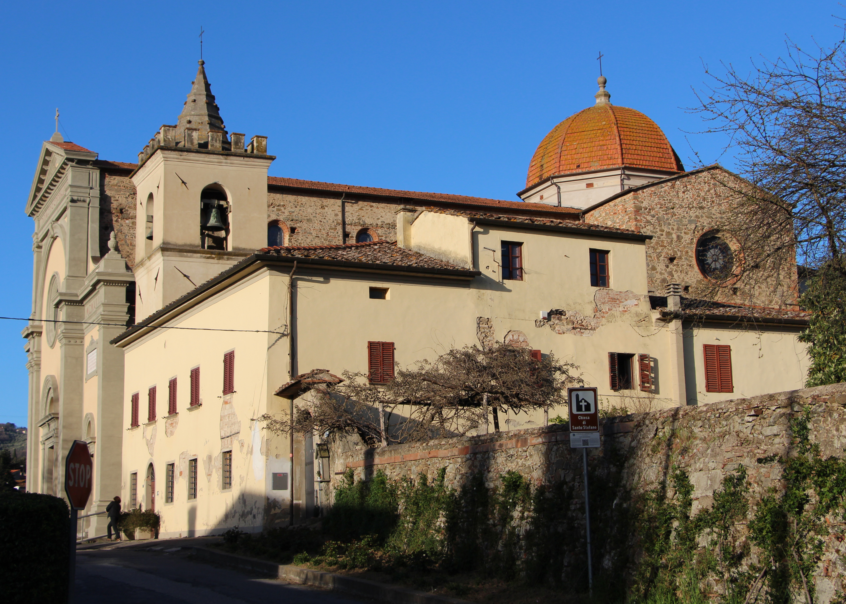 Lamporecchio